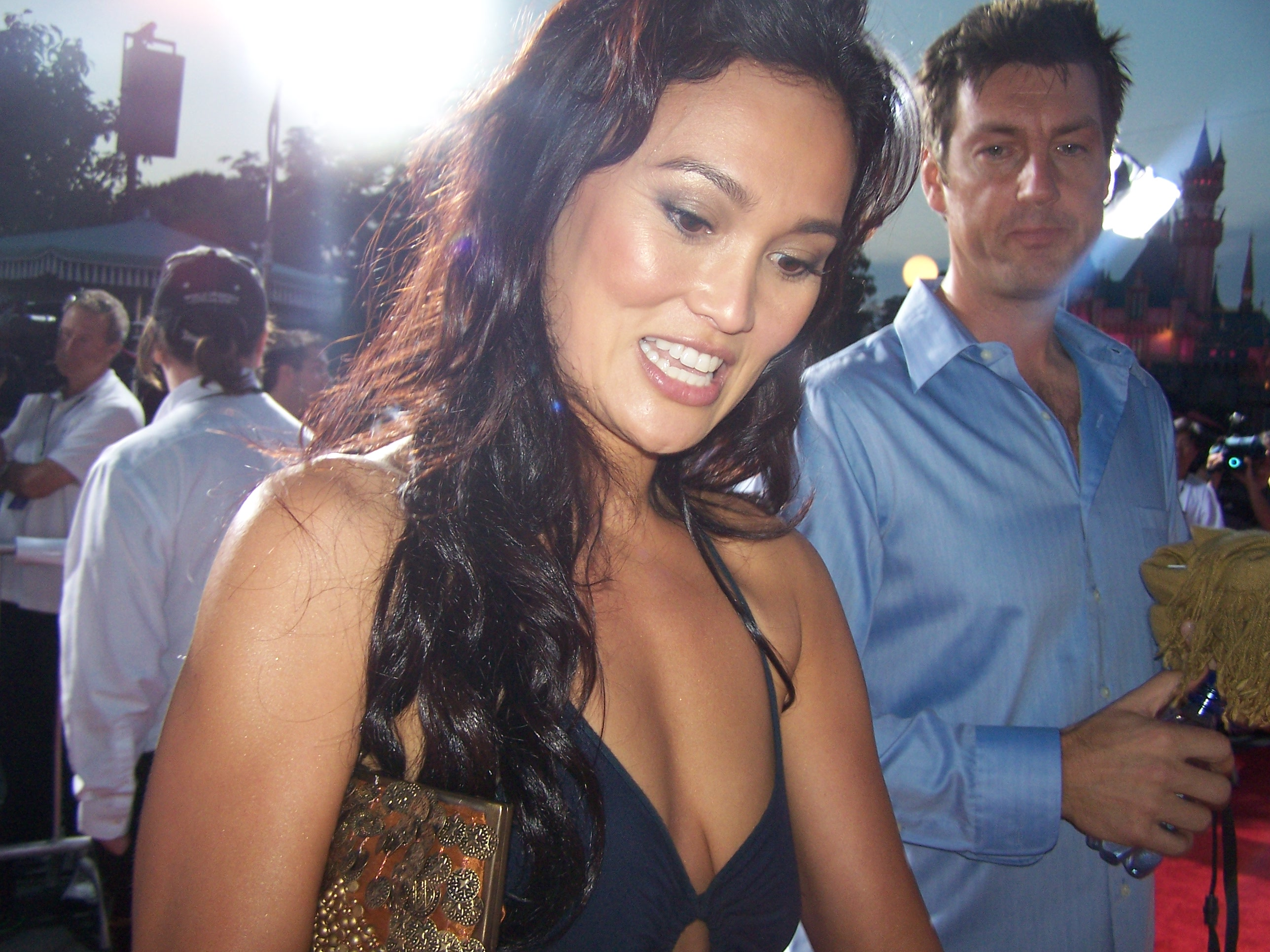 Actress Tia Carrere.